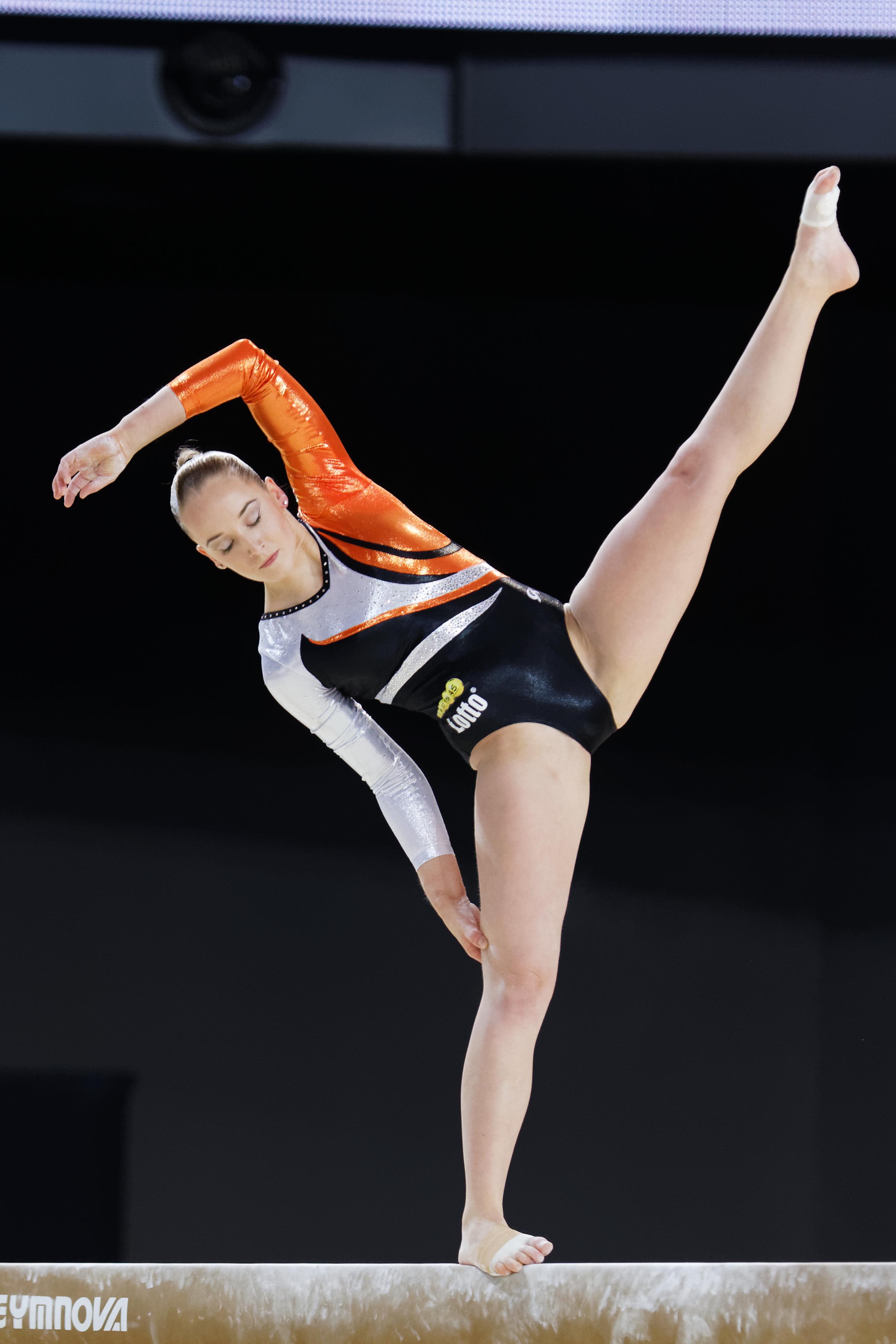 2015 European Artistic Gymnastics Championships. Bamance beam.